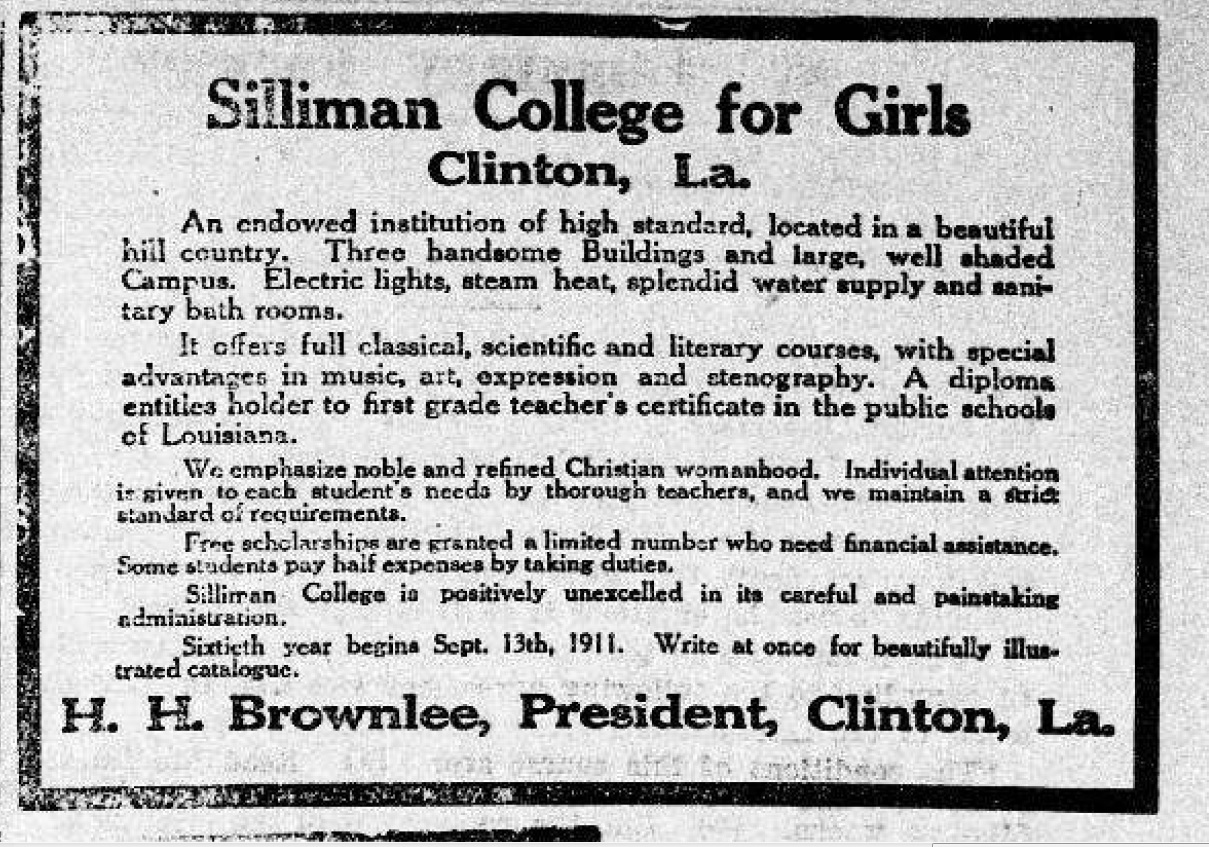 Ad in St. Tammany Farmer Newspaper for Sillman College for Girls